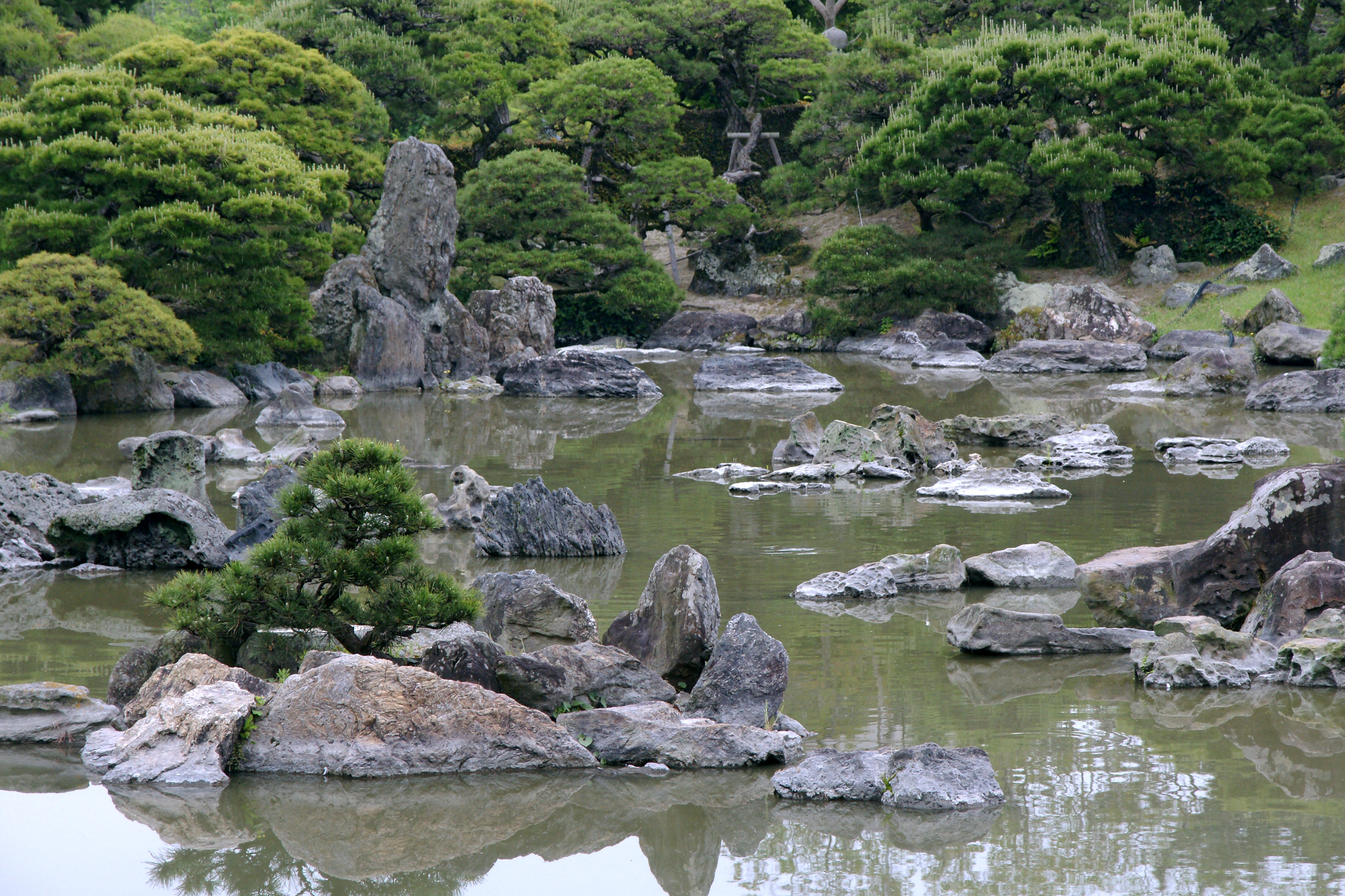 Ohana, Yanagawa, Fukuoka prefecture, Japan